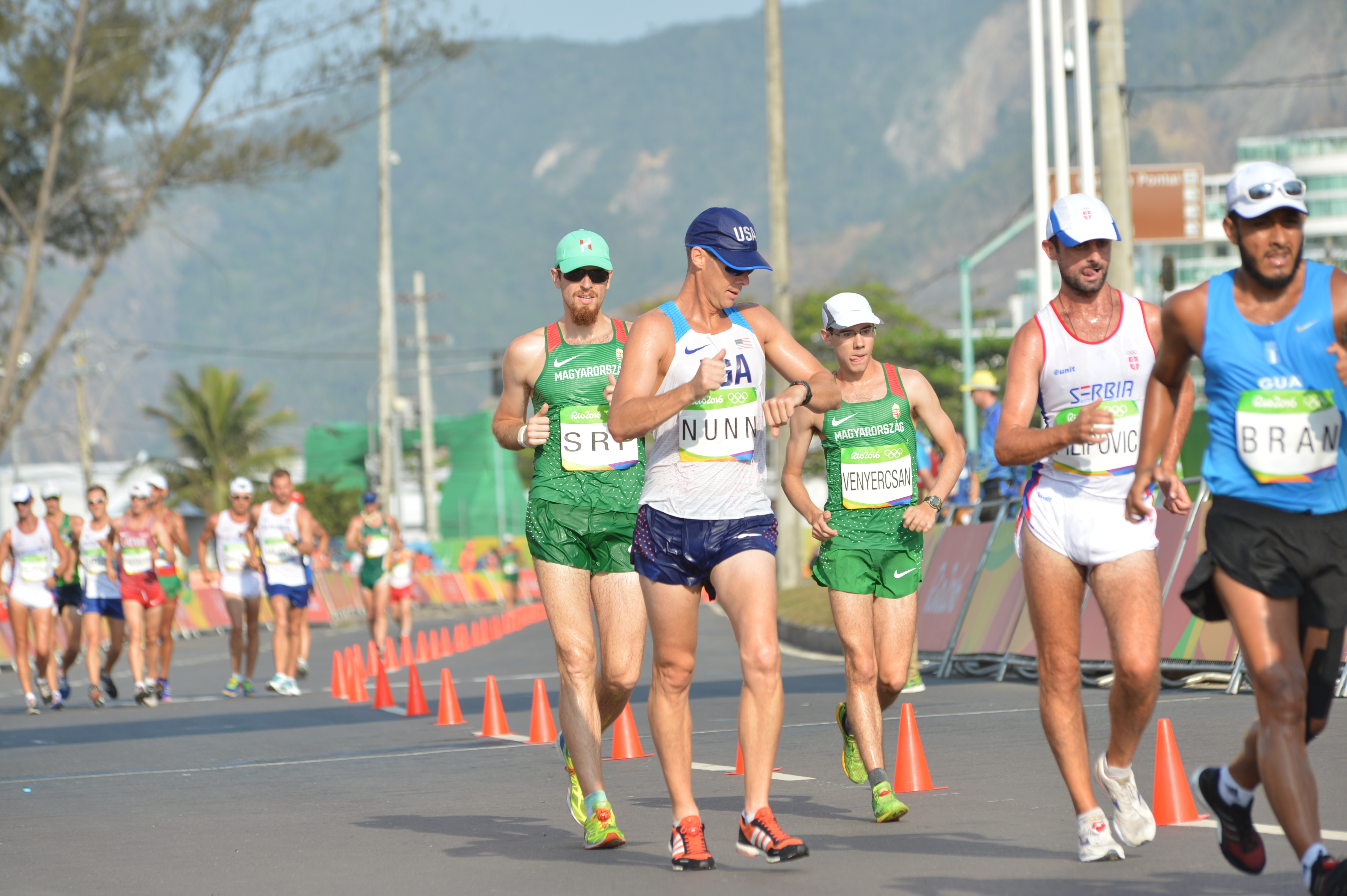 Staff Sgt. John Nunn race walks 50 kilometers at Rio Olympic Games